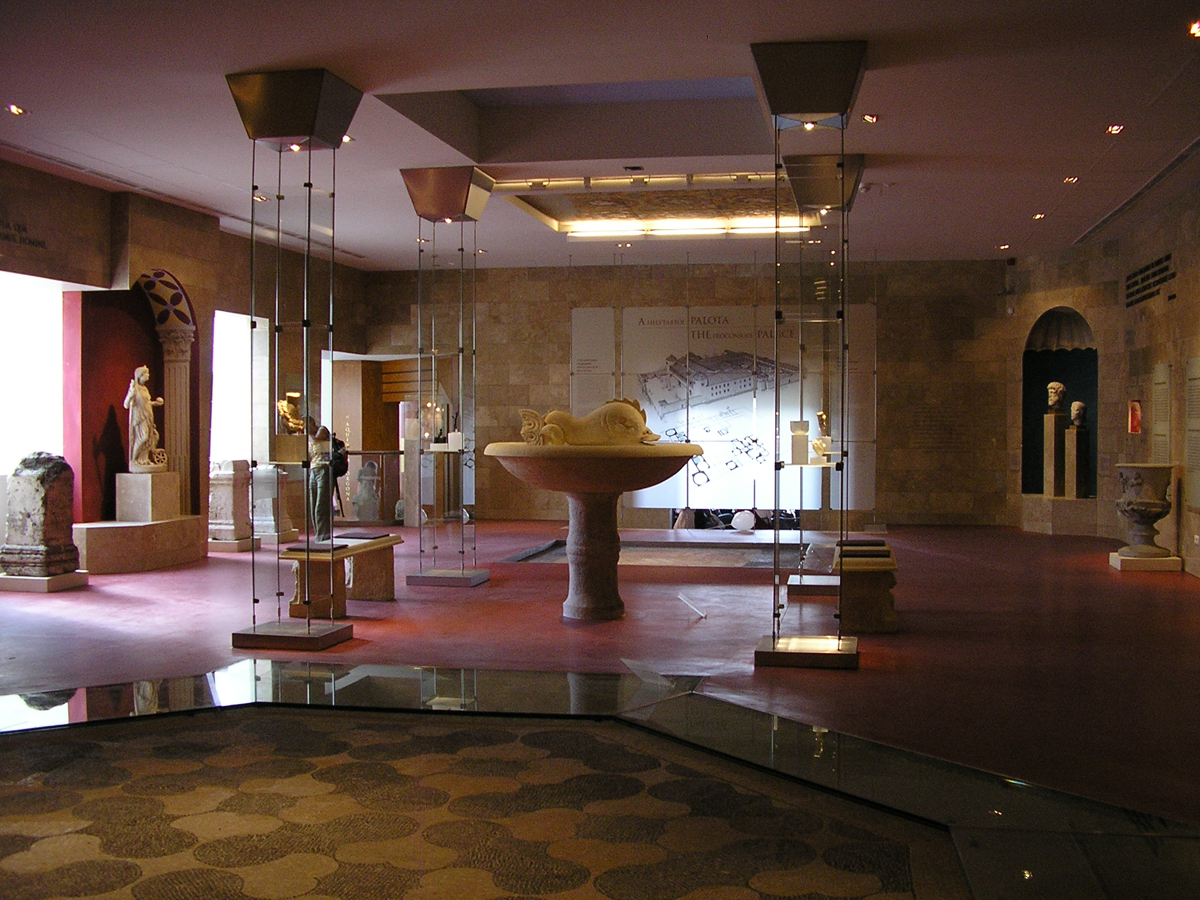 Aquincum Museum, Budapest. The new permanent exhibition.